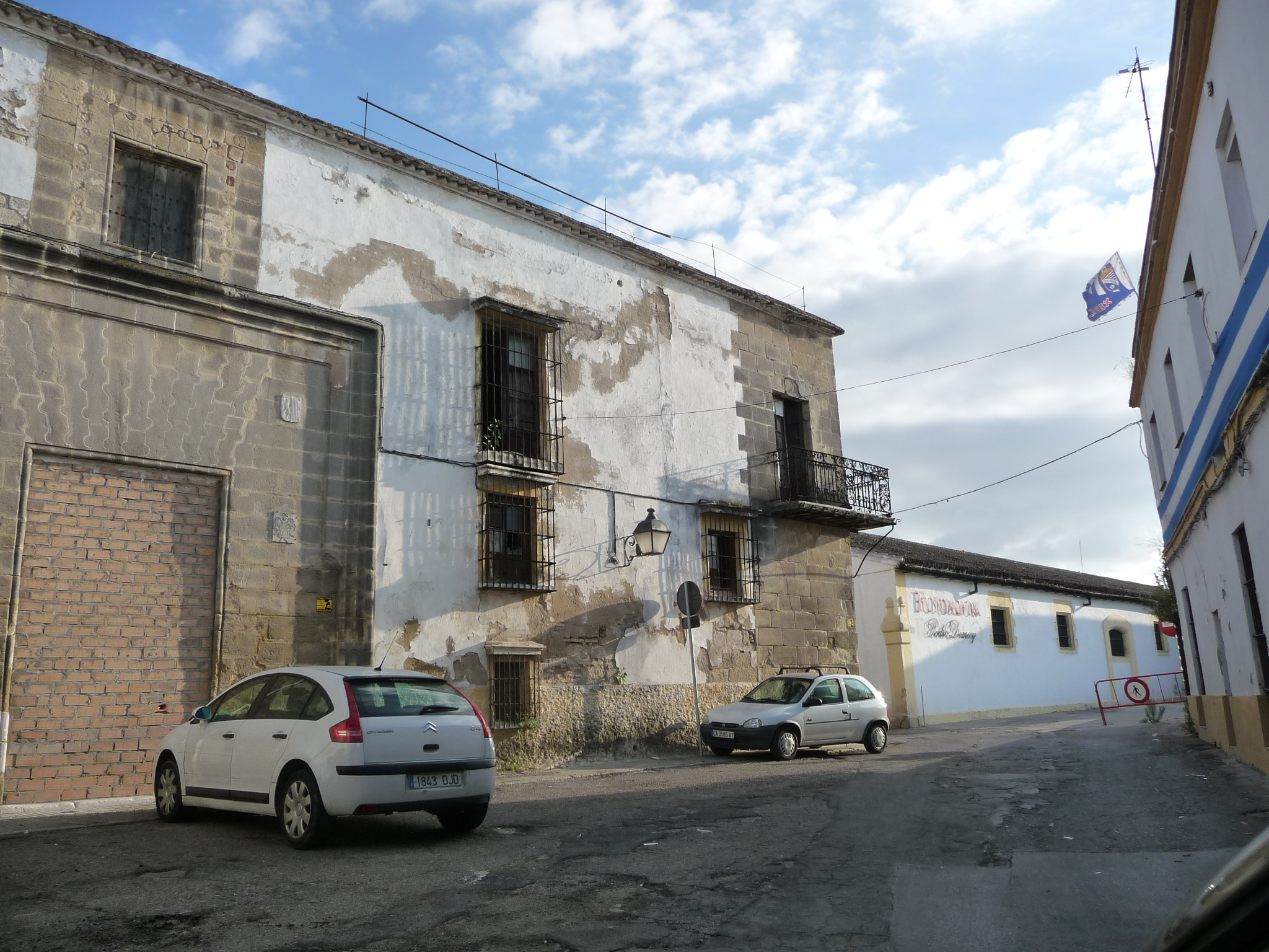 Palace of El Pantera de Jerez. Jerez de la Frontera (Andalusia, Spain)